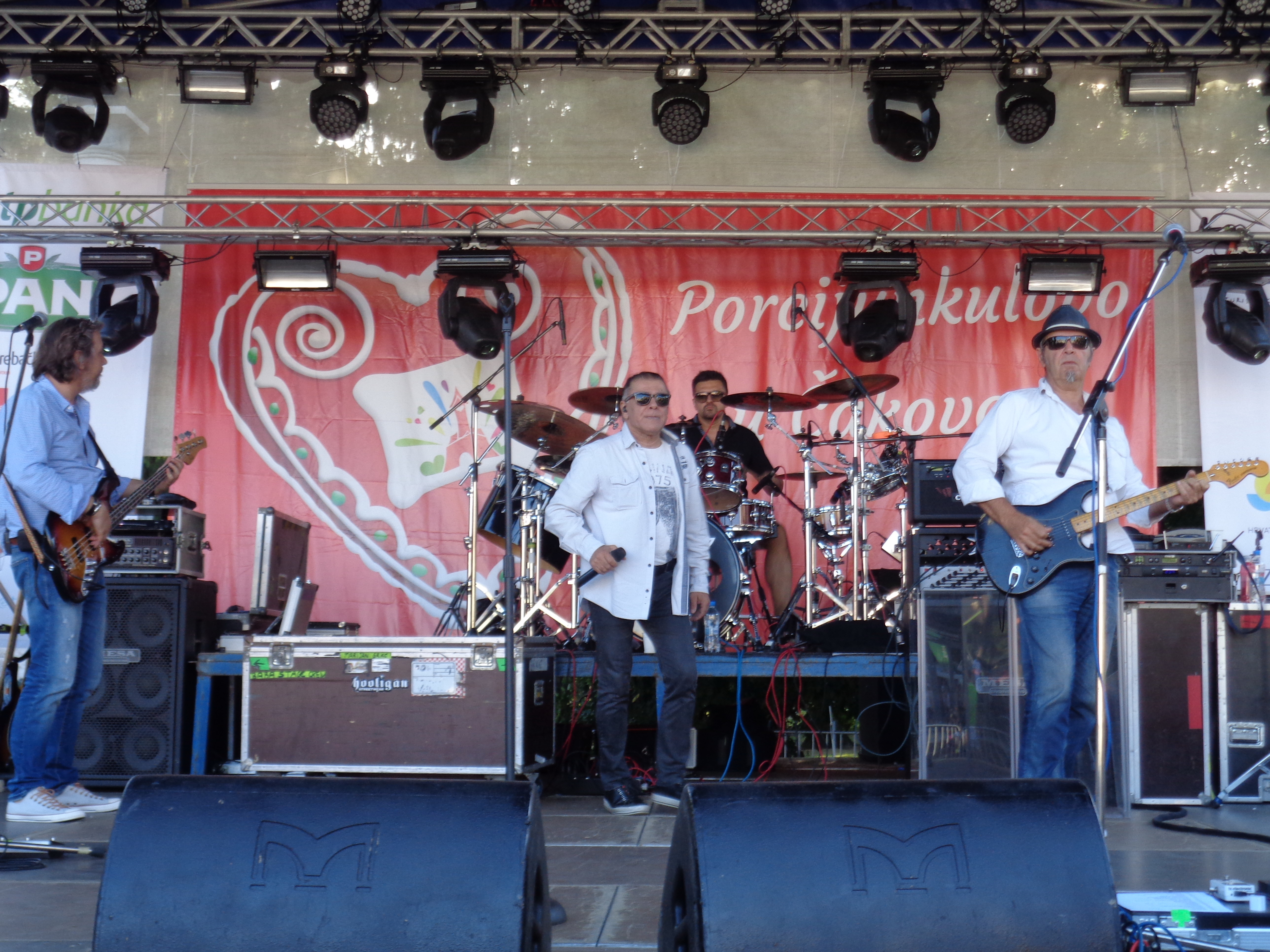 Parni valjak, rock music band from Zagreb, at Porcijunkulovo, Catholic feast of Our Lady of the Angels and local festival in Čakovec, Croatia (2016)